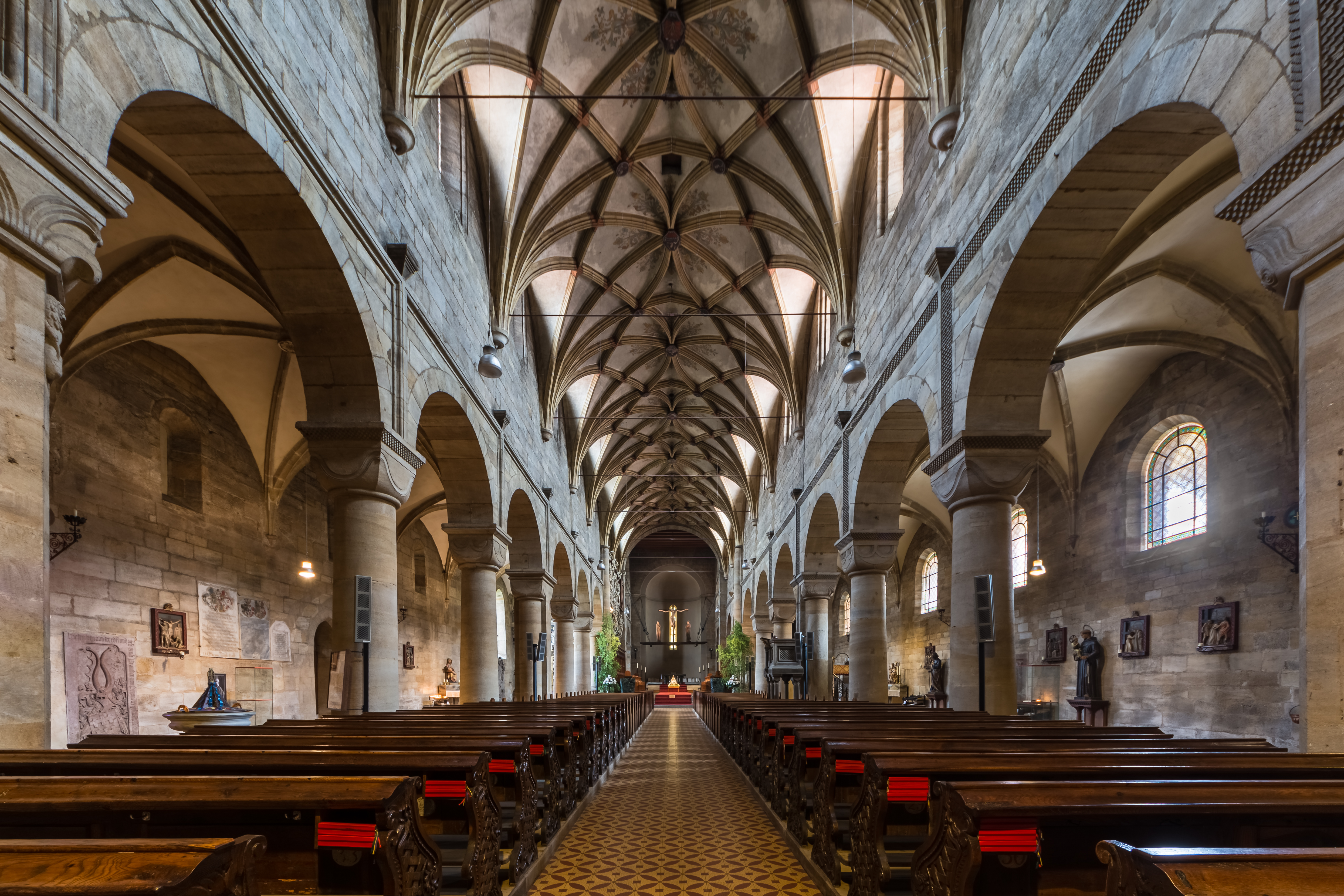 Interior of Seckau Basilica, Styria, Austria